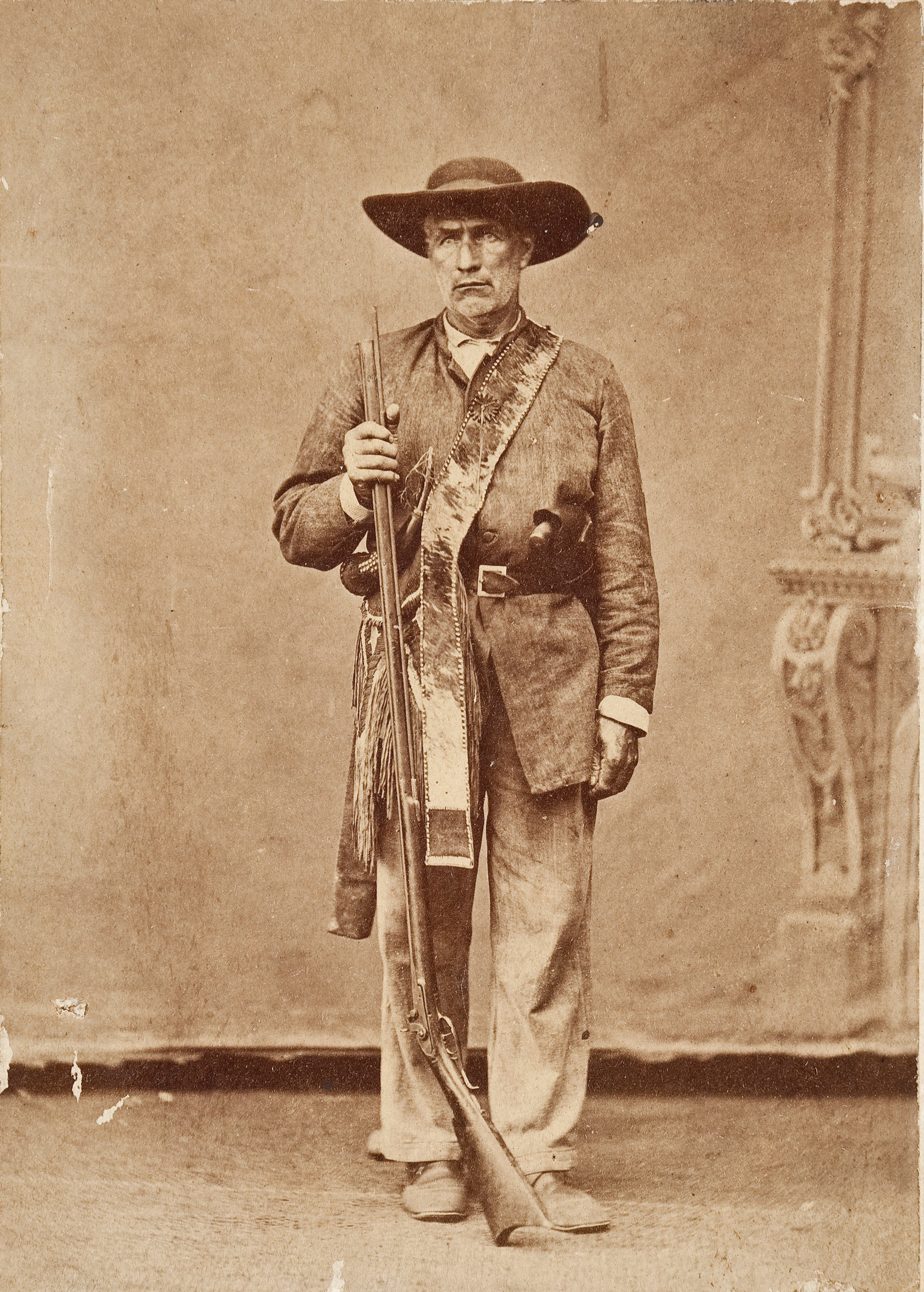 Albumen print of William A. A. Wallace|William "Bigfoot" Wallace